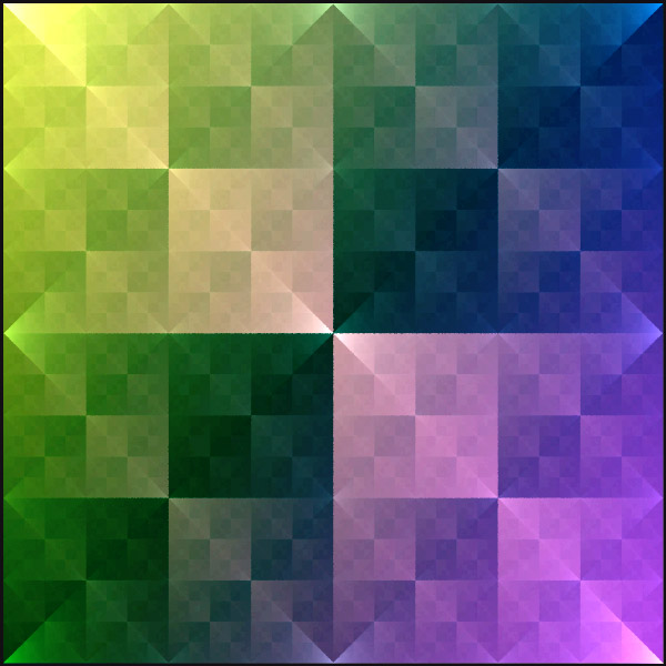 Sierpinski square, a Fractal. The image is an example of a "space filling fractal". Its fractal dimension is 2.0. This will make it fill out the space completely in a fractal pattern/structure without overlap at any point. The image was created from using an "iterated function system" (IFS).